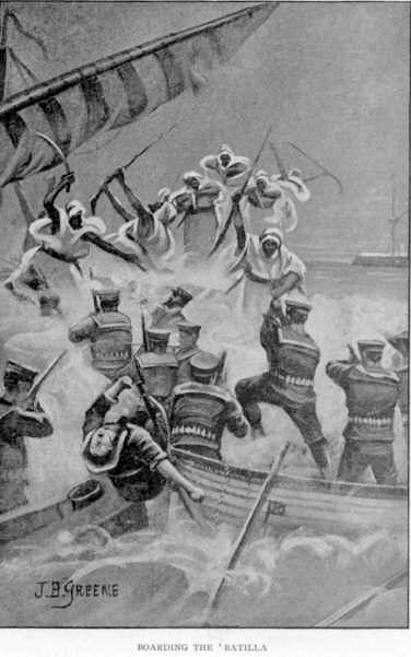 Somali warriors board British naval batilla in "Young Tom Bowling" by J.C. Hutcheson.